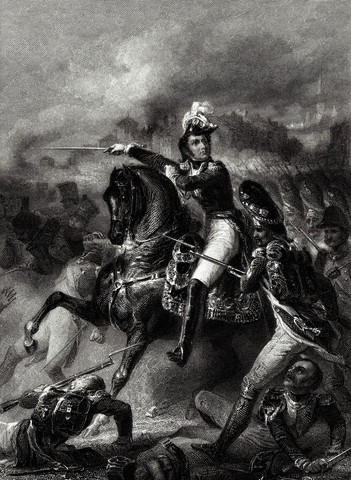 Jean Lannes in the Battle of Essling